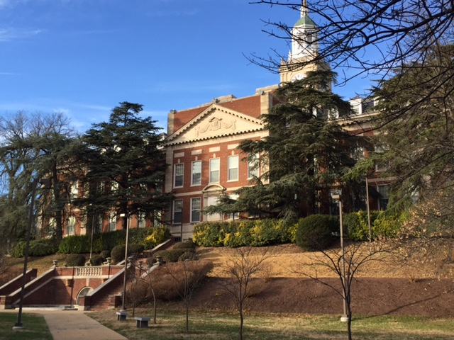 The Lower Quadrangle behind Founders Library; also known as "The Valley."